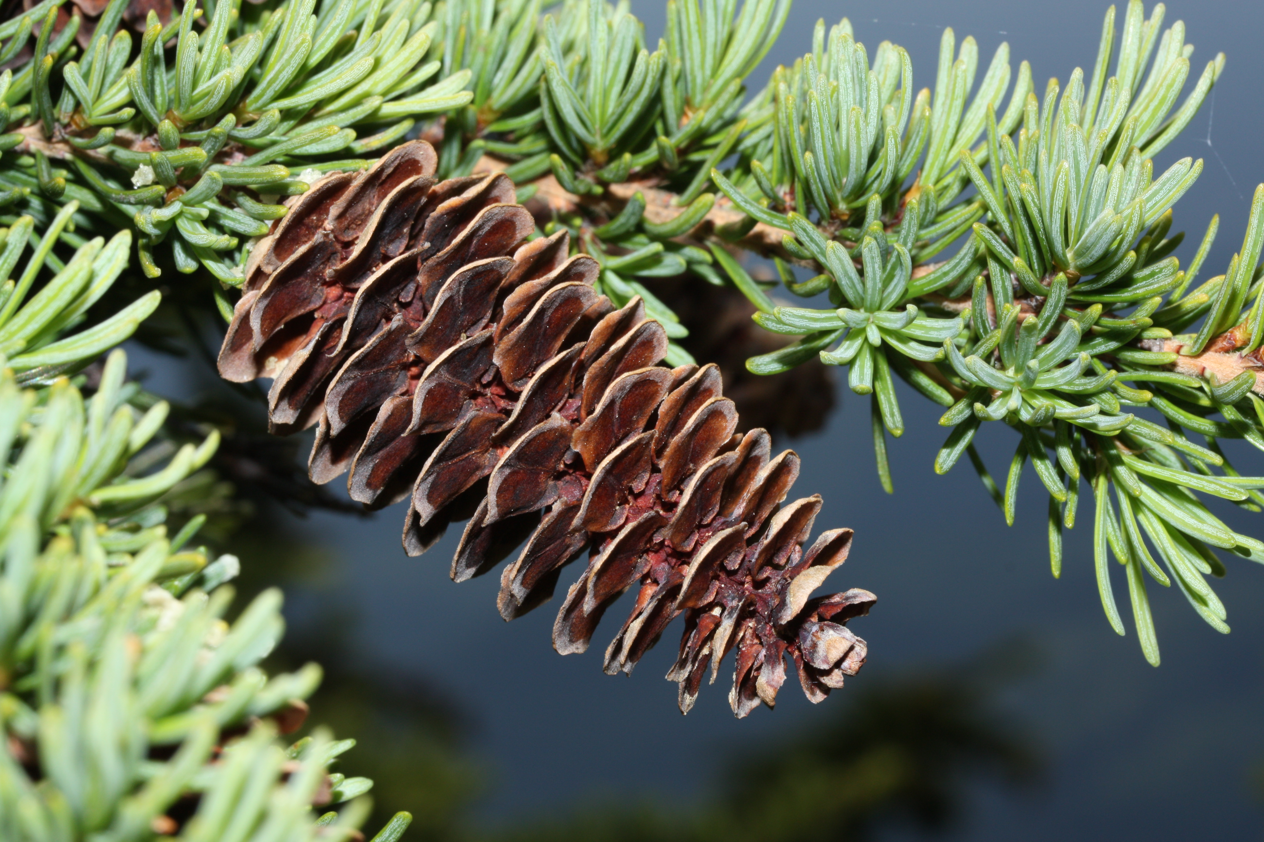 Mountain Hemlock, Black Hemlock